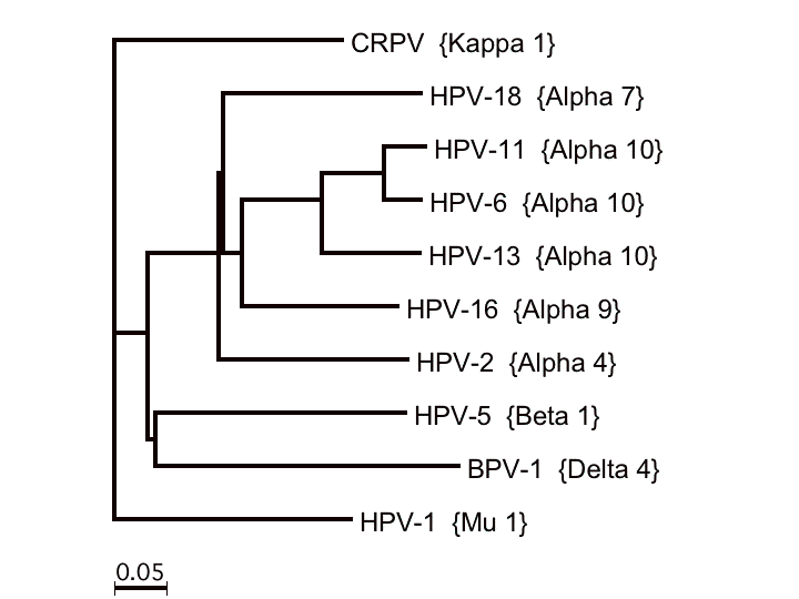 A homology alignment of the L1 (capsid) proteins of selected papillomavirus types. The genus and species of each papillomavirus type are given in parentheses. The PNG crusade bot automatically converted this image to the more efficient PNG format. The image was originally uploaded as "PapillomavirusTree3.gif". )